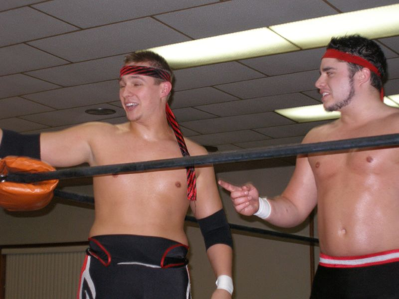 Professional wrestlers Jagged and Shane Matthews at a Chikara event